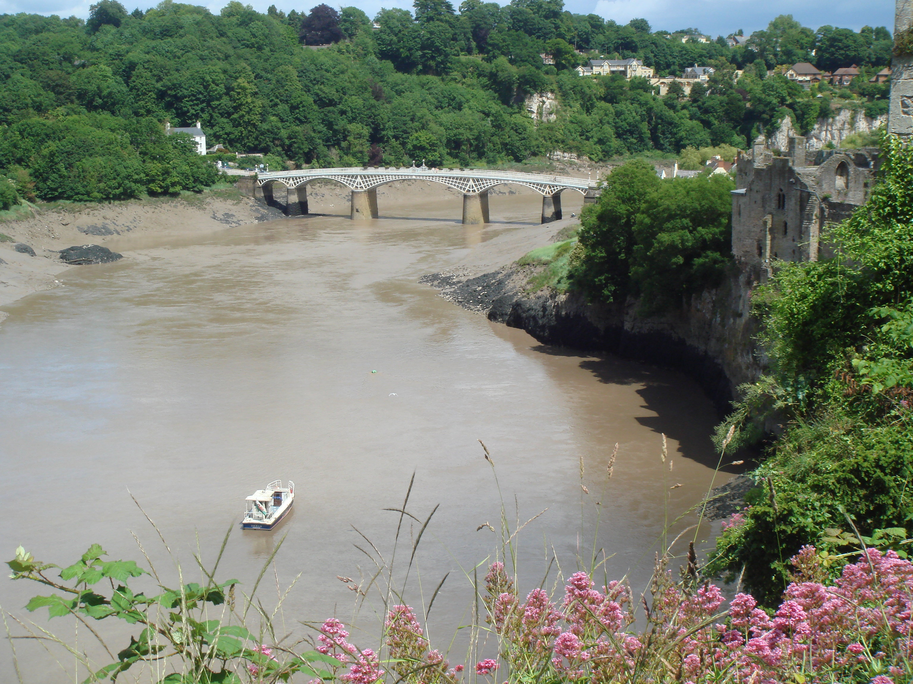 River Wye seen from Chepstow Castle